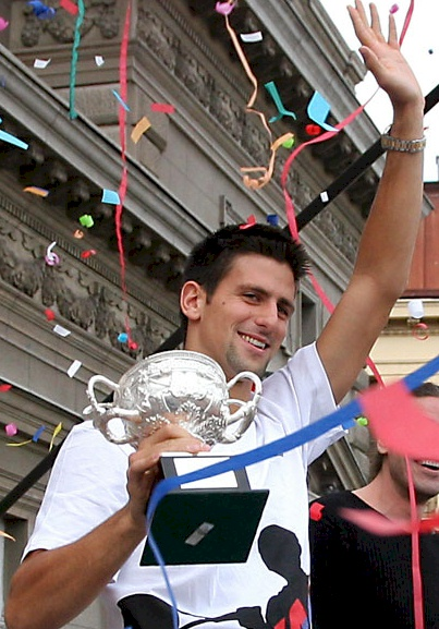 Novak Đoković on the balcony of City of Belgrade Assembly, holding his Australian Open trophy. (cropped)